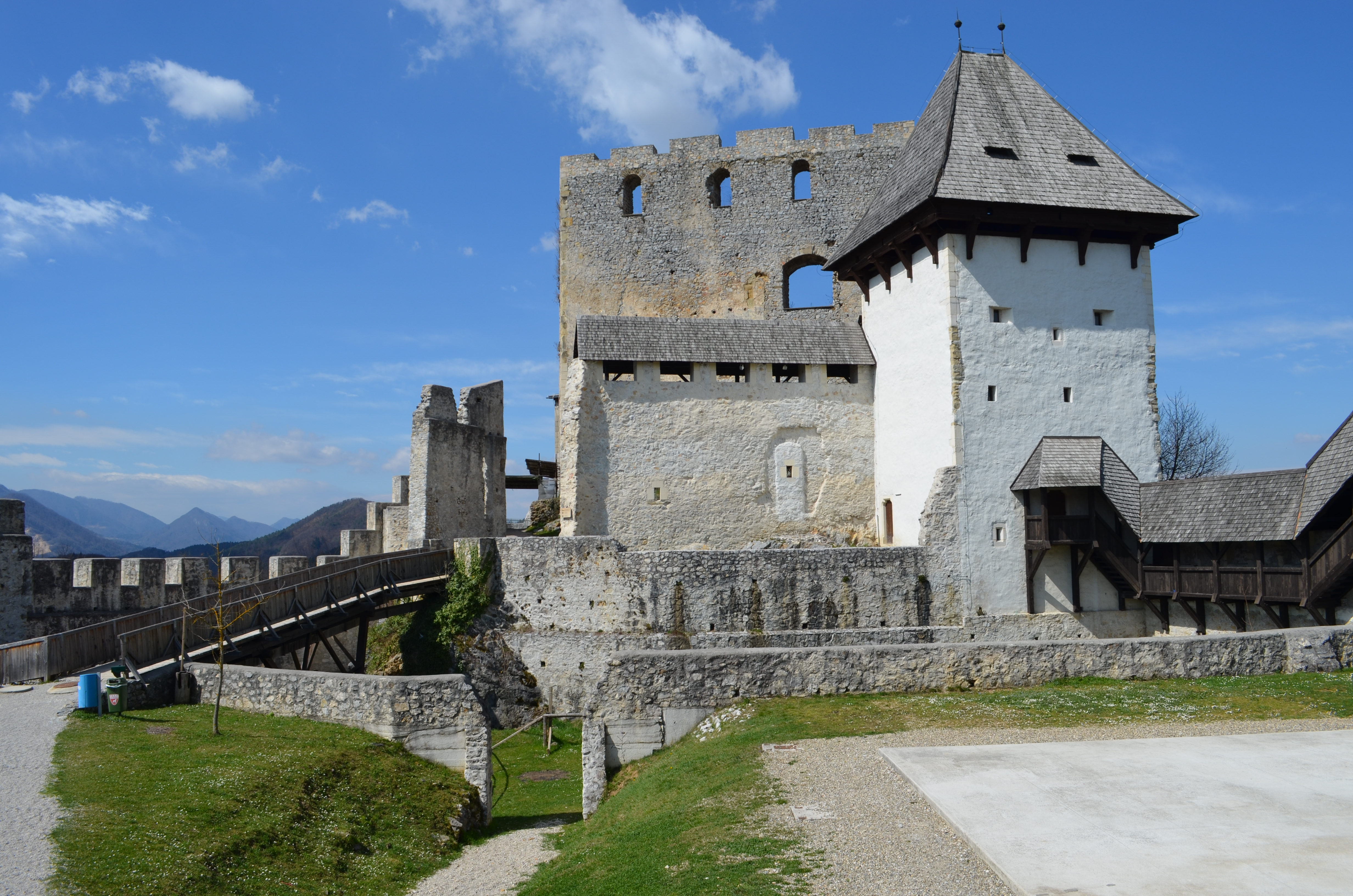 Old castle overlooking Slovenian city of Celje. This media shows a cultural heritage monument of Slovenia with the EŠD number: 58